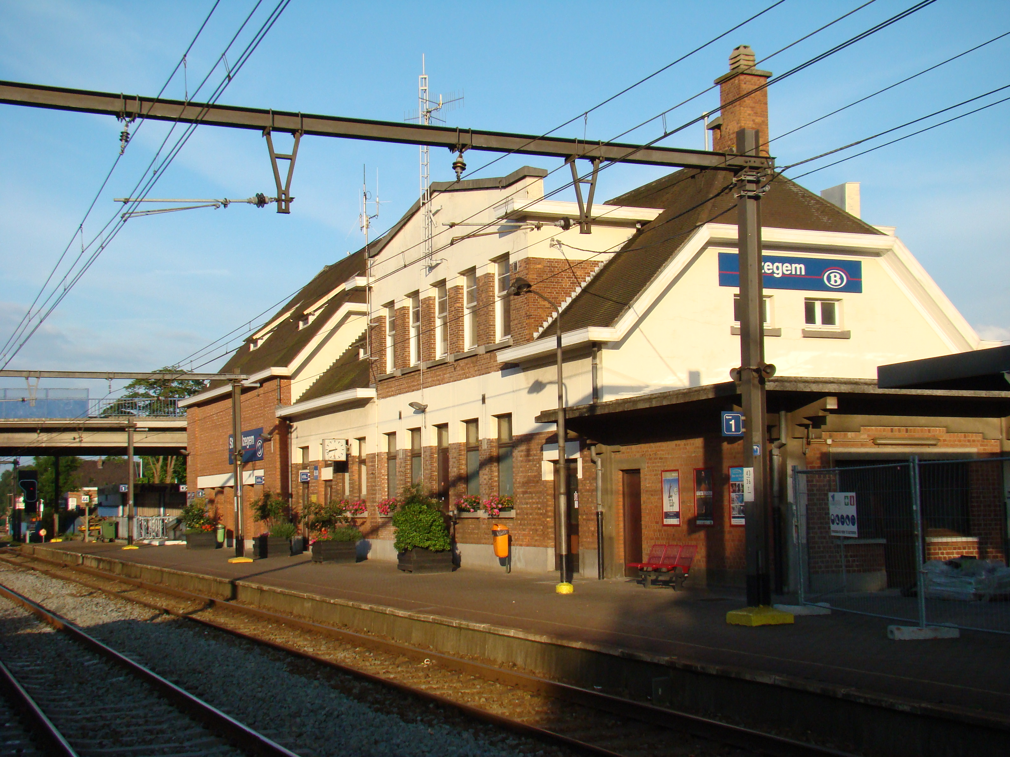 Buildings in Izegem, Prins Albertlaan (West Flanders, Belgium)